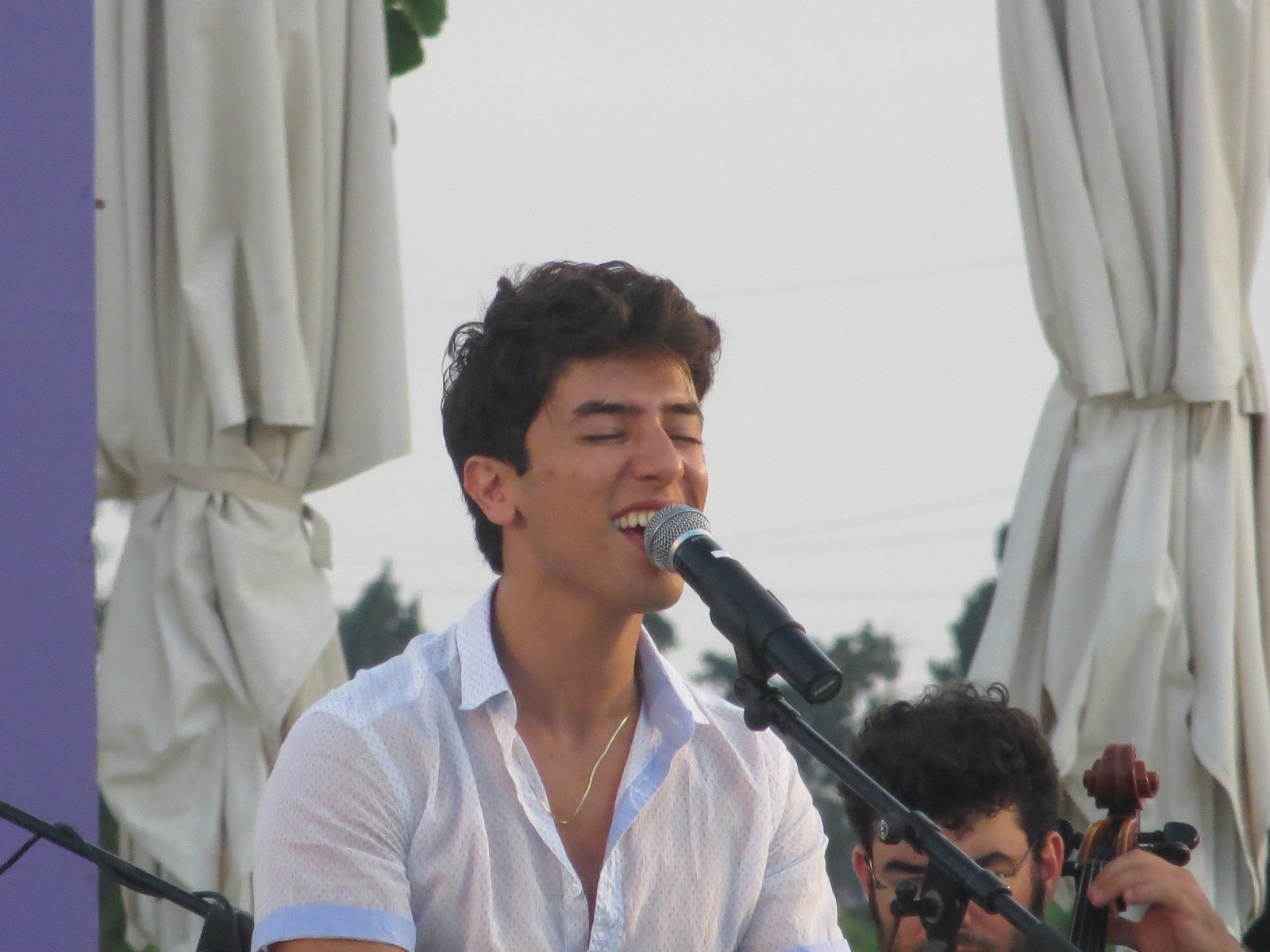 Entertainment